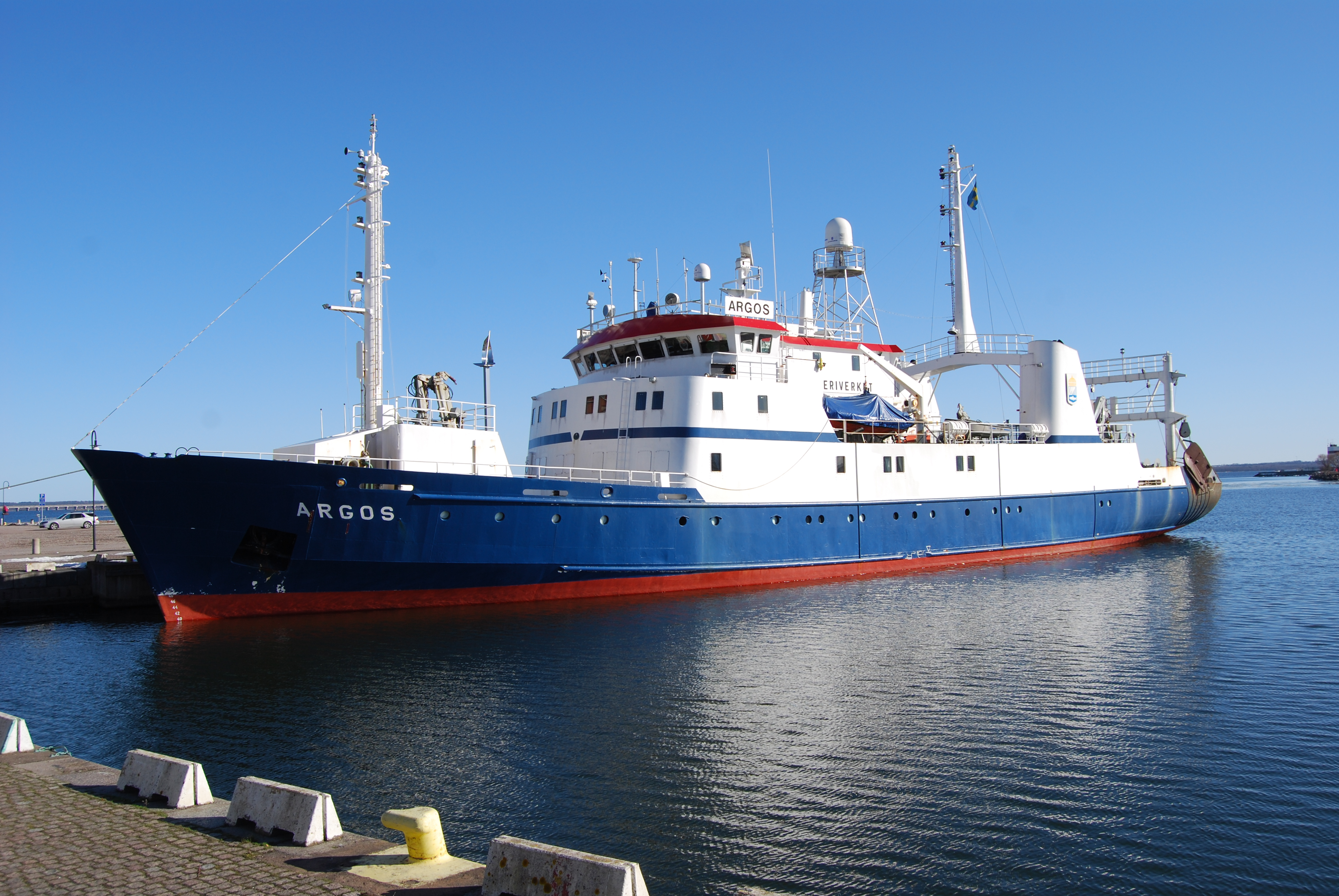 Swedish fishing research vessel U/F Argos in port in Kalmar.